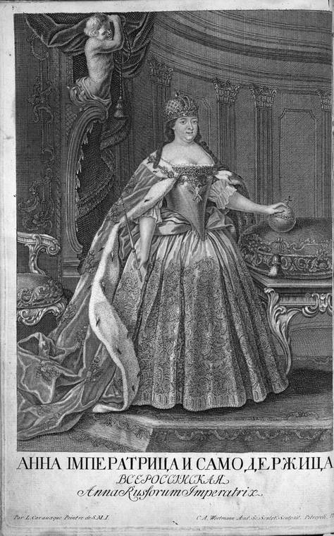 Portrait of Empress Anna Ivanovna (1693-1740)